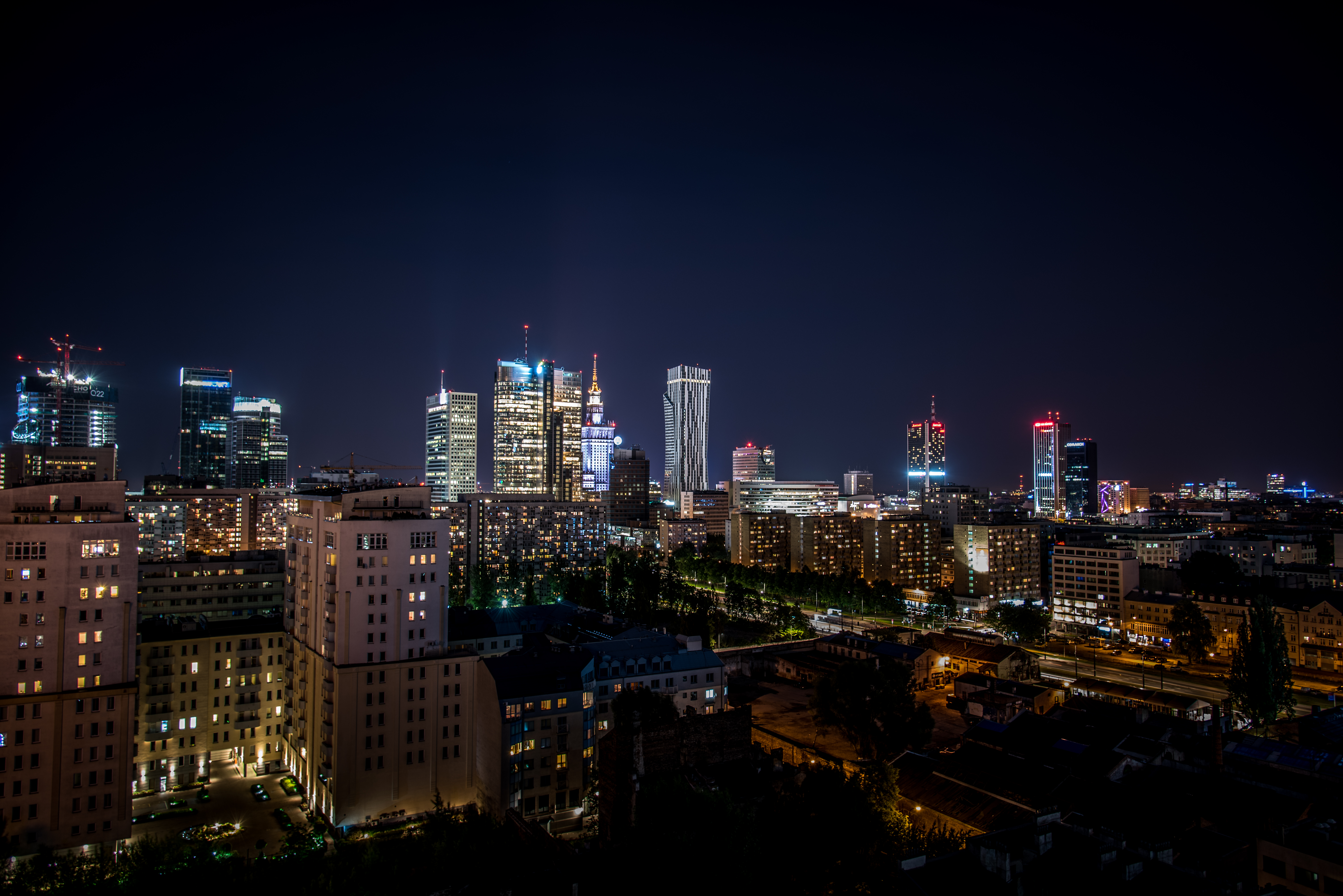 Warsaw by night.